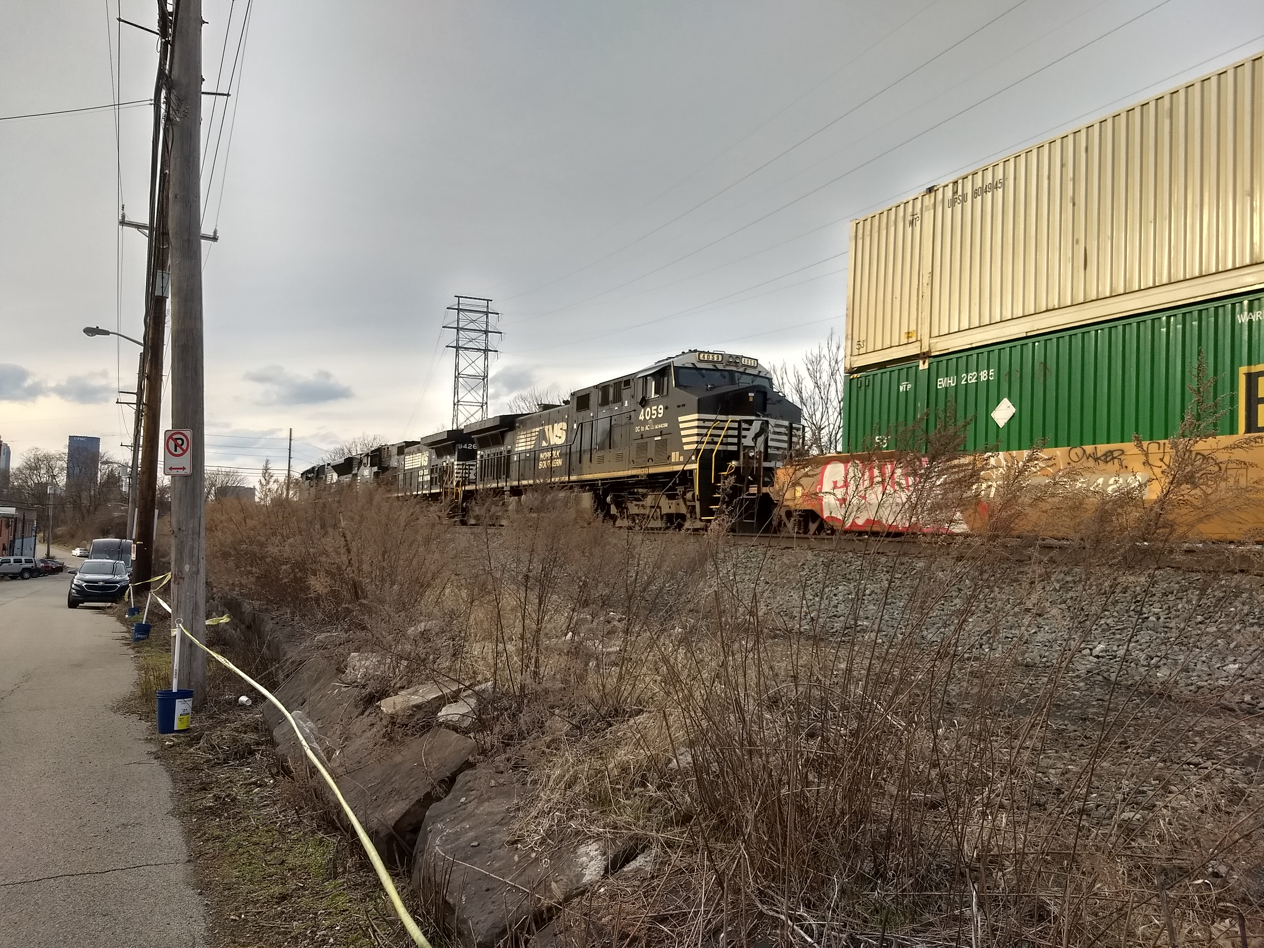 Locomotives pulling a double-stack container train on Norfolk Southern's Mon Line.